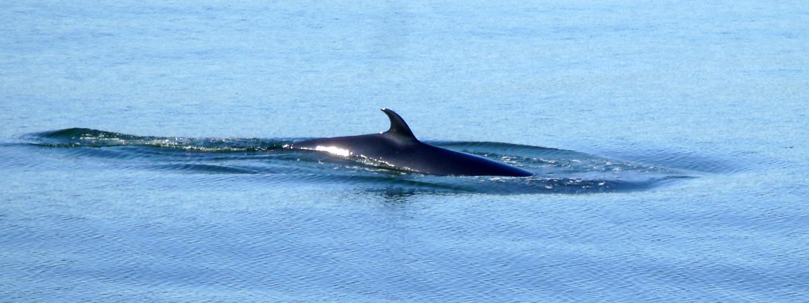 Minke whale (Balaenoptera acutorostrata) back. It was seen in the Saint-Lawrence, near Tadoussac, province of Québec.